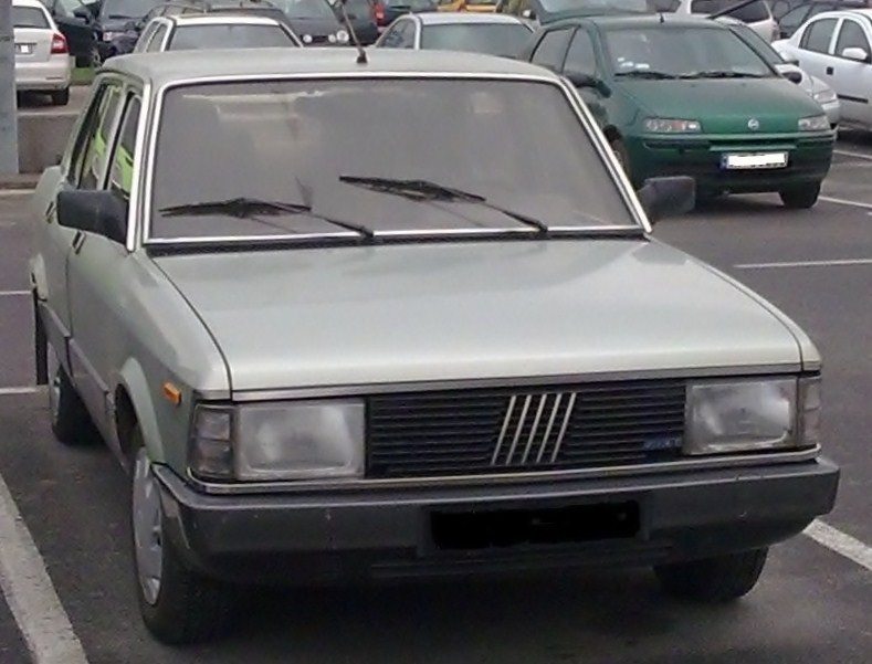 Fiat Argenta on a parking lot in front of a supermarket in Piaseczno.